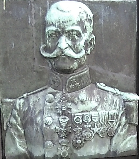 Félix Foulon grave, Cemetary of Saint-Gilles, Brussels. (cropped)